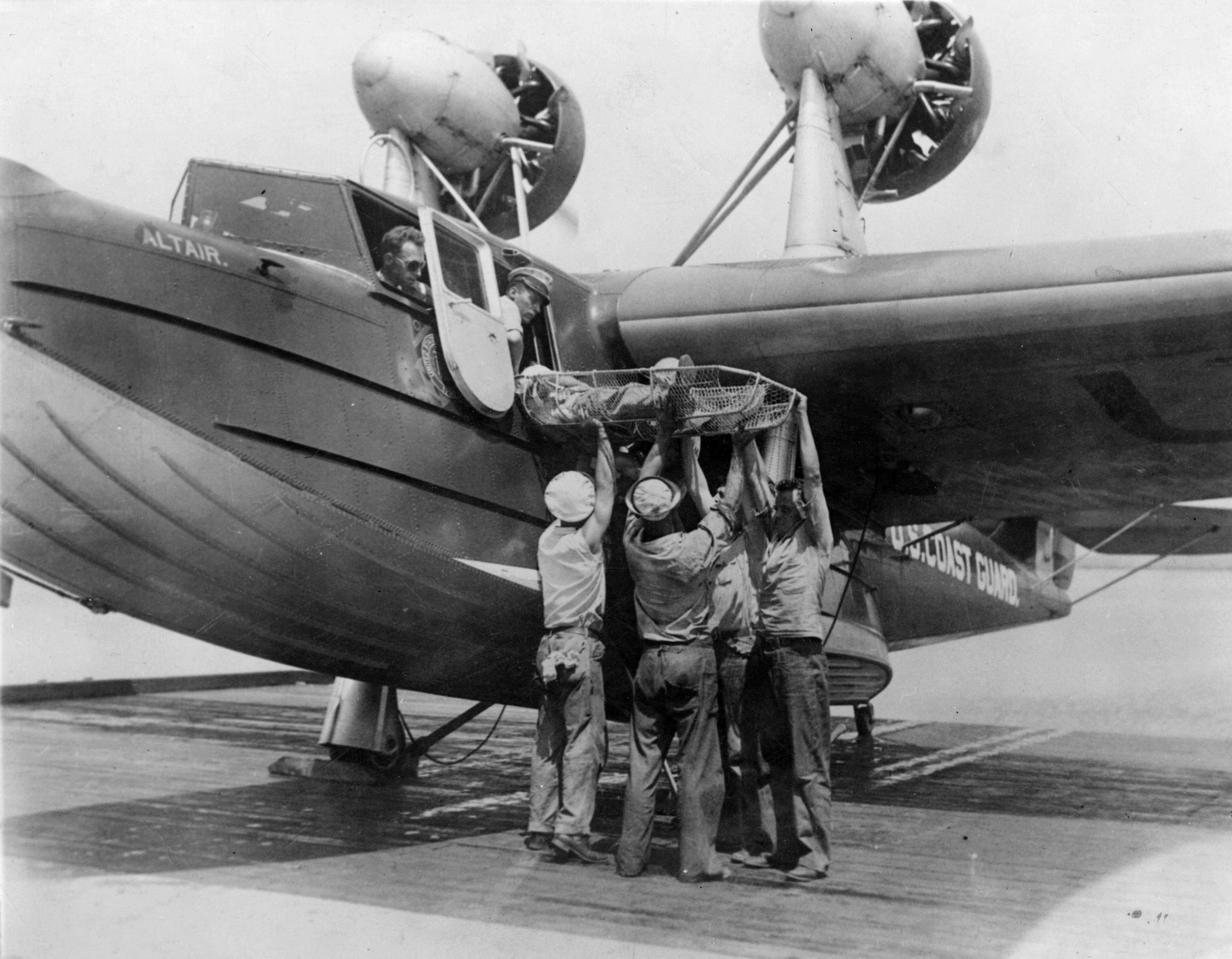 A patient in a stretcher is unloaded from the U.S. Coast Guard General Aviation PJ-1 Altair (serial CG-52, later V-112). This aircraft was commissioned in August 1932 and was decommissioned in May 1940.